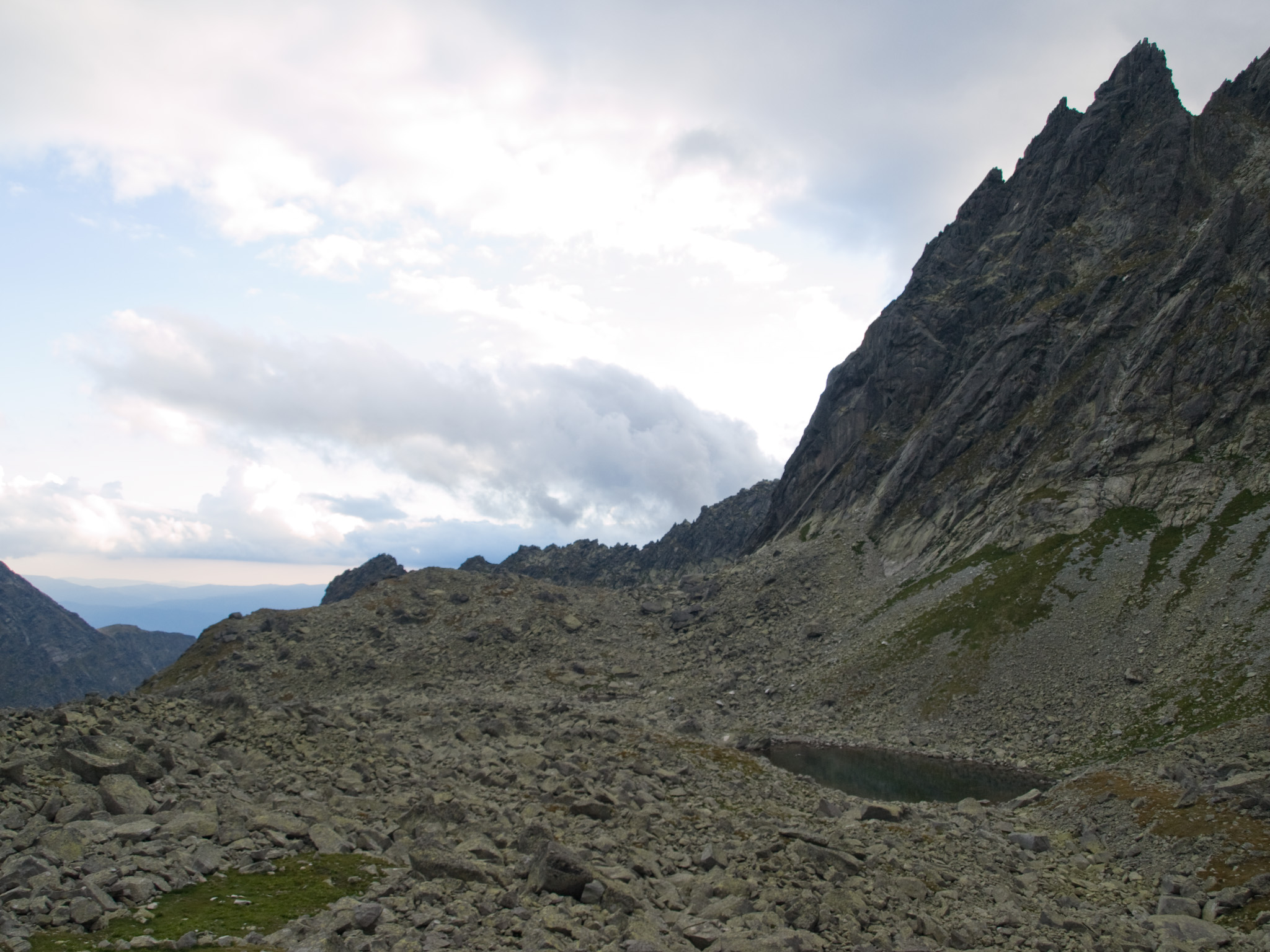 Ošarpance above Rumanovo pleso